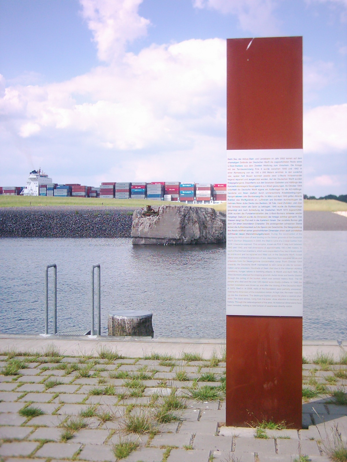 U-Boot-Bunker Finkenwerder, a World War II submarine bunker in Hamburg-Finkenwerder, Germany.